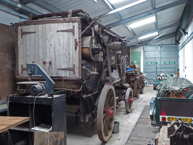 Robey Trust, Tavistock - threshing machine: A Robey of Lincoln threshing machine awaits restoration in this extension to the Trust's premises. The Trust is devoted to all things Robey and has many steamy delights for followers of road and stationary steam. This is No. 3331 of c1880 and is the oldest known surviving Robey threshing machine. It has had new wheels but is awaiting a suitable woodworker to replace the top boards.